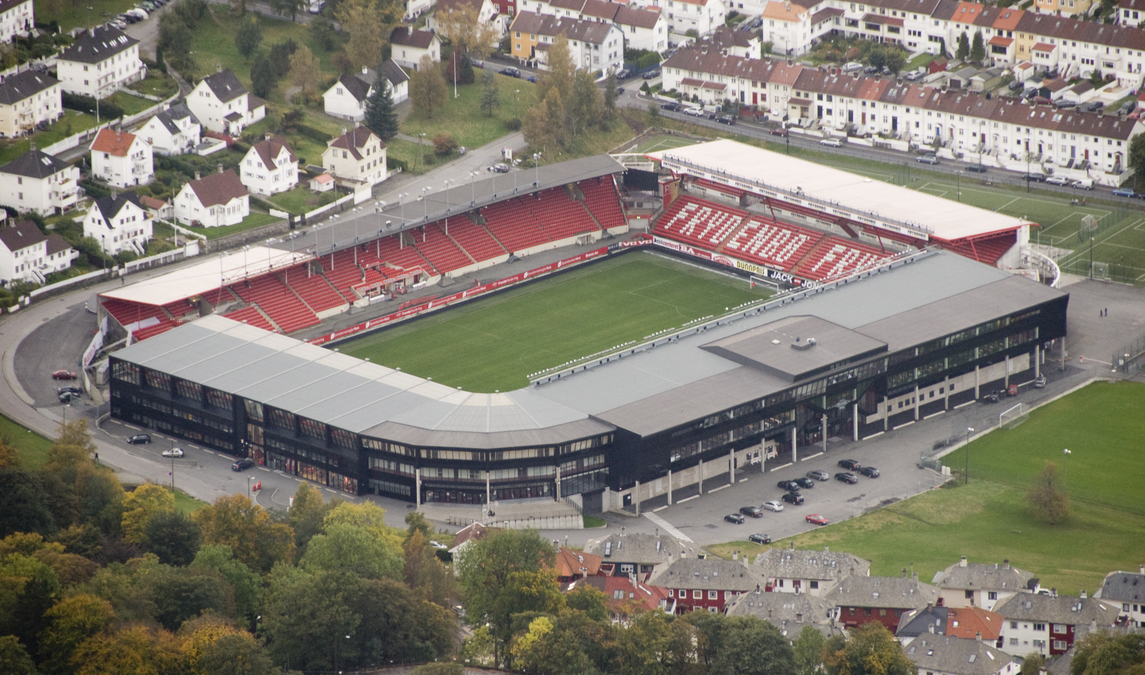 Brann stadion in Bergen, Norway, as seen from Ulriken.